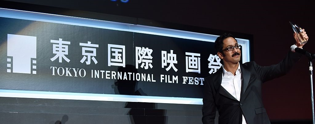 Amirhossein Asgari Awarded in 27th Tokyo International Film Festival for Best Feature Film.